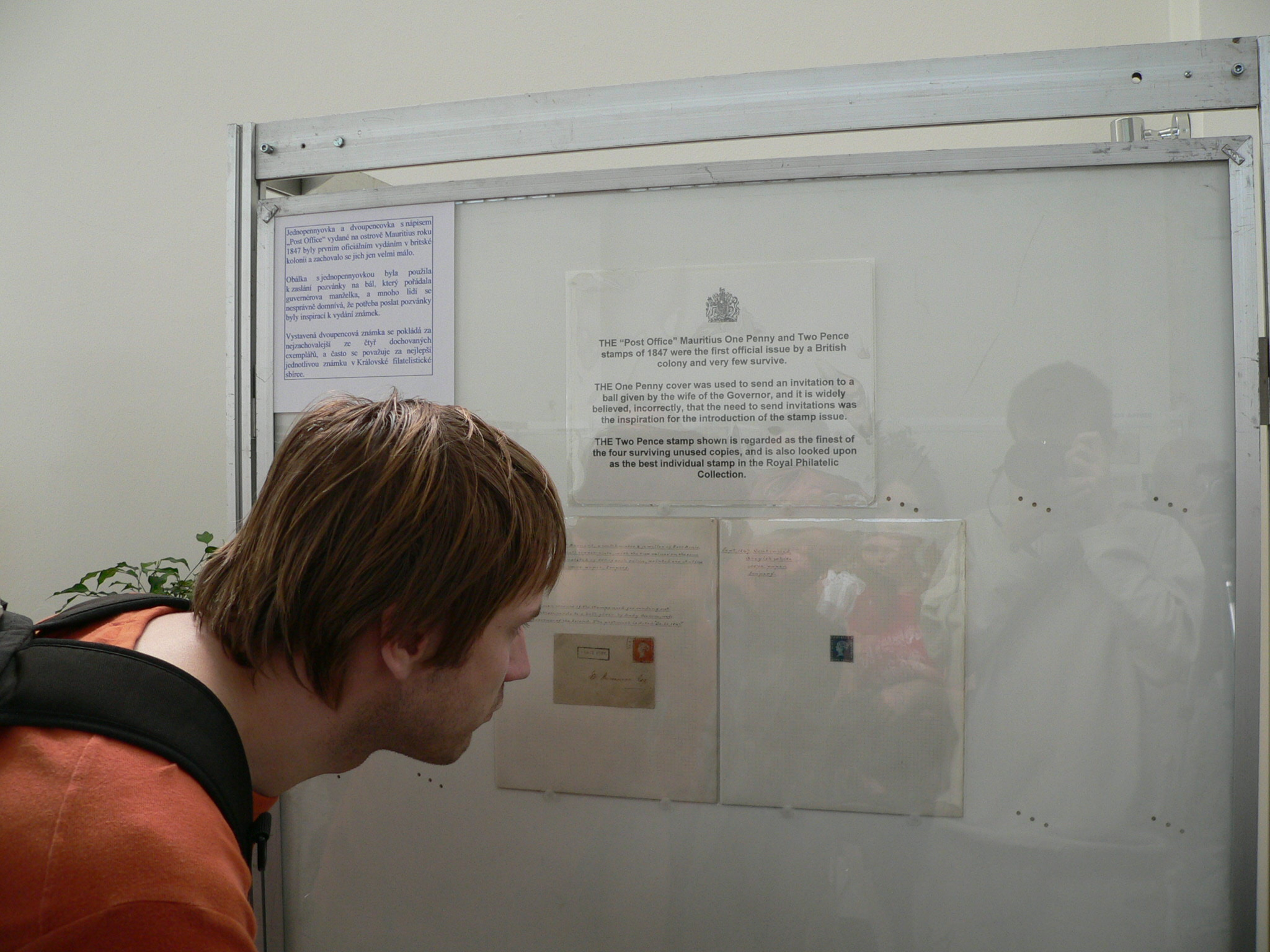 Blue mauritius stamp, English Royal Family´s stamp collection, European stamp exibition Brno 2005